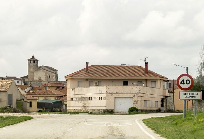 Entrada al pueblo